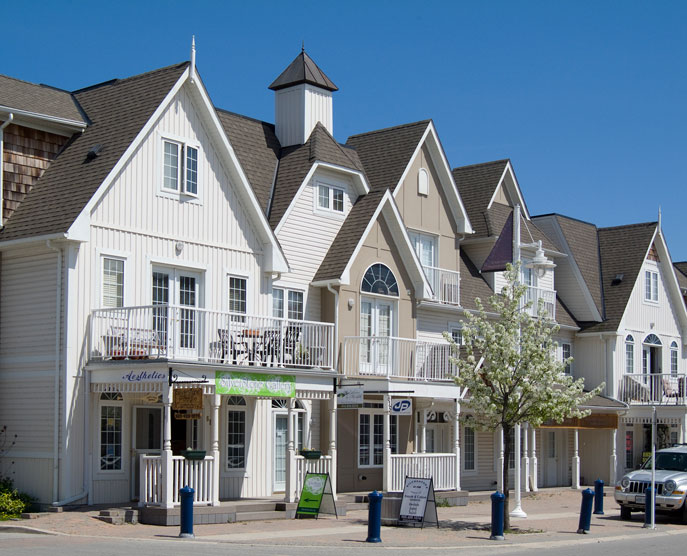 Flowering trees line the street in the springtime in the Nautical Village along the Waterfront Trail, Pickering.